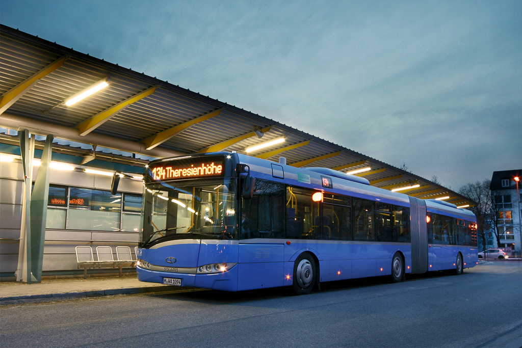 Solaris Urbino 18 Mk3 bus (M-WA 1094) in Munich, Germany. Probably Busservice Watzinger GmbH & Co. KG operator.